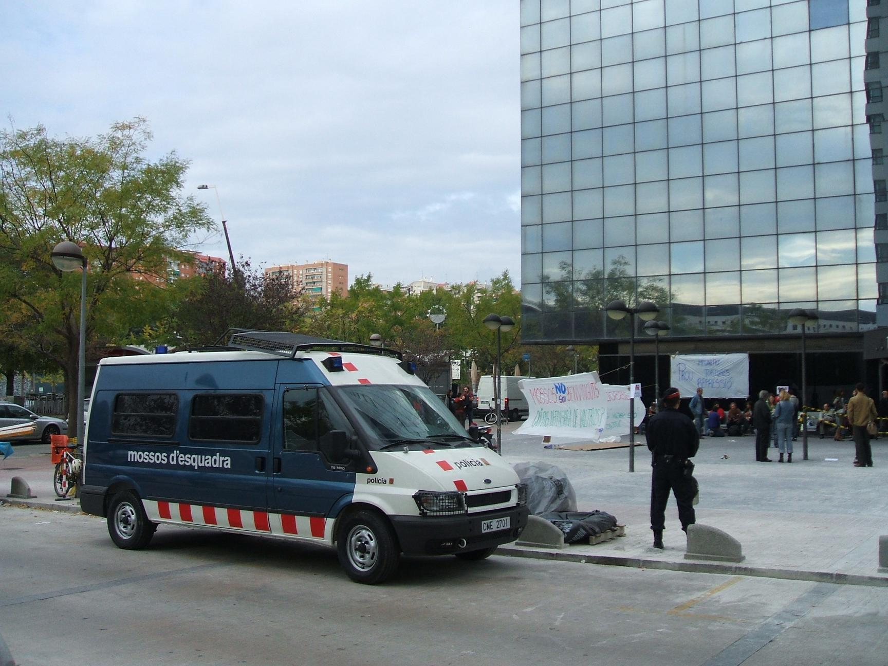 Sabadell (Spain) courthouse